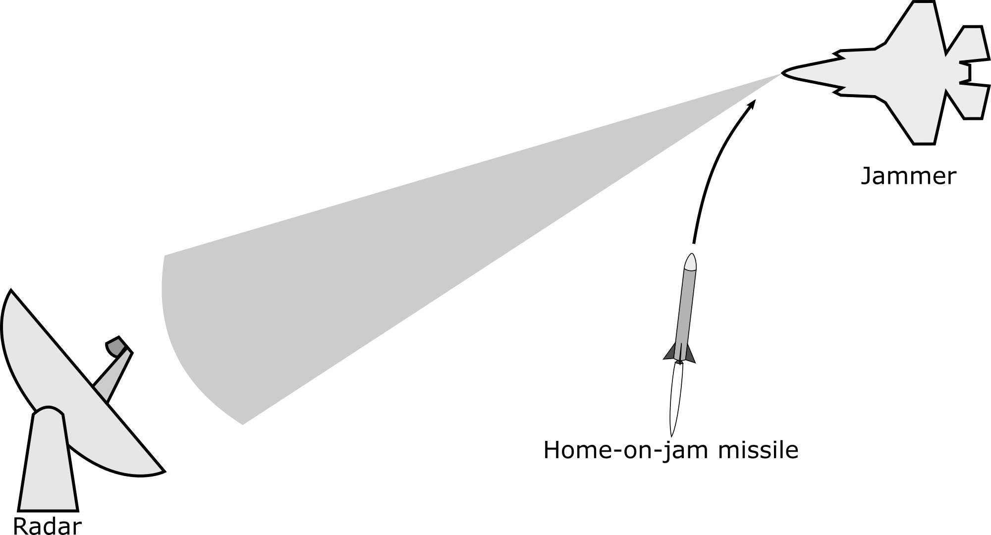 Home-on-jam missile